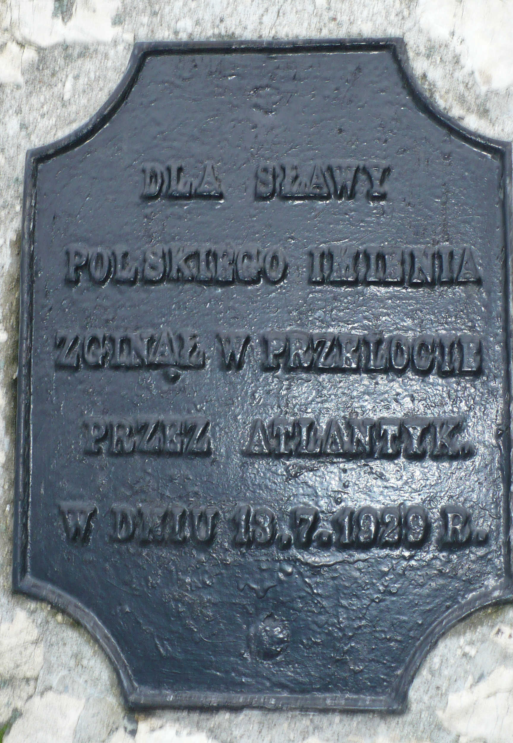 A plaque from monument commemorationg Polish aviator Ludwik Idzikowski in Dąbrowa Górnicza-Tucznawa